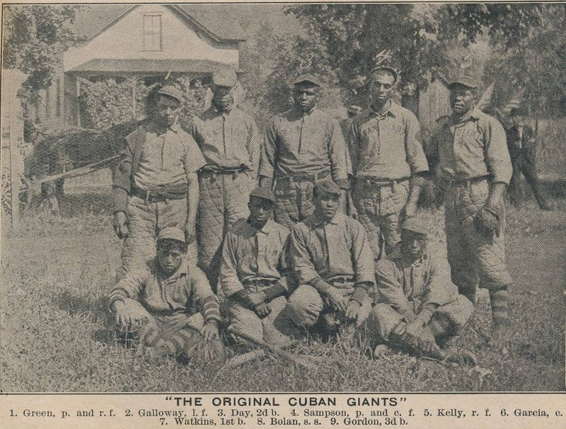 The 1902 Cuban Giants baseball team. The Cuban Giants were "the first full-time professional black baseball team" (The New York Times April 27, 2008).